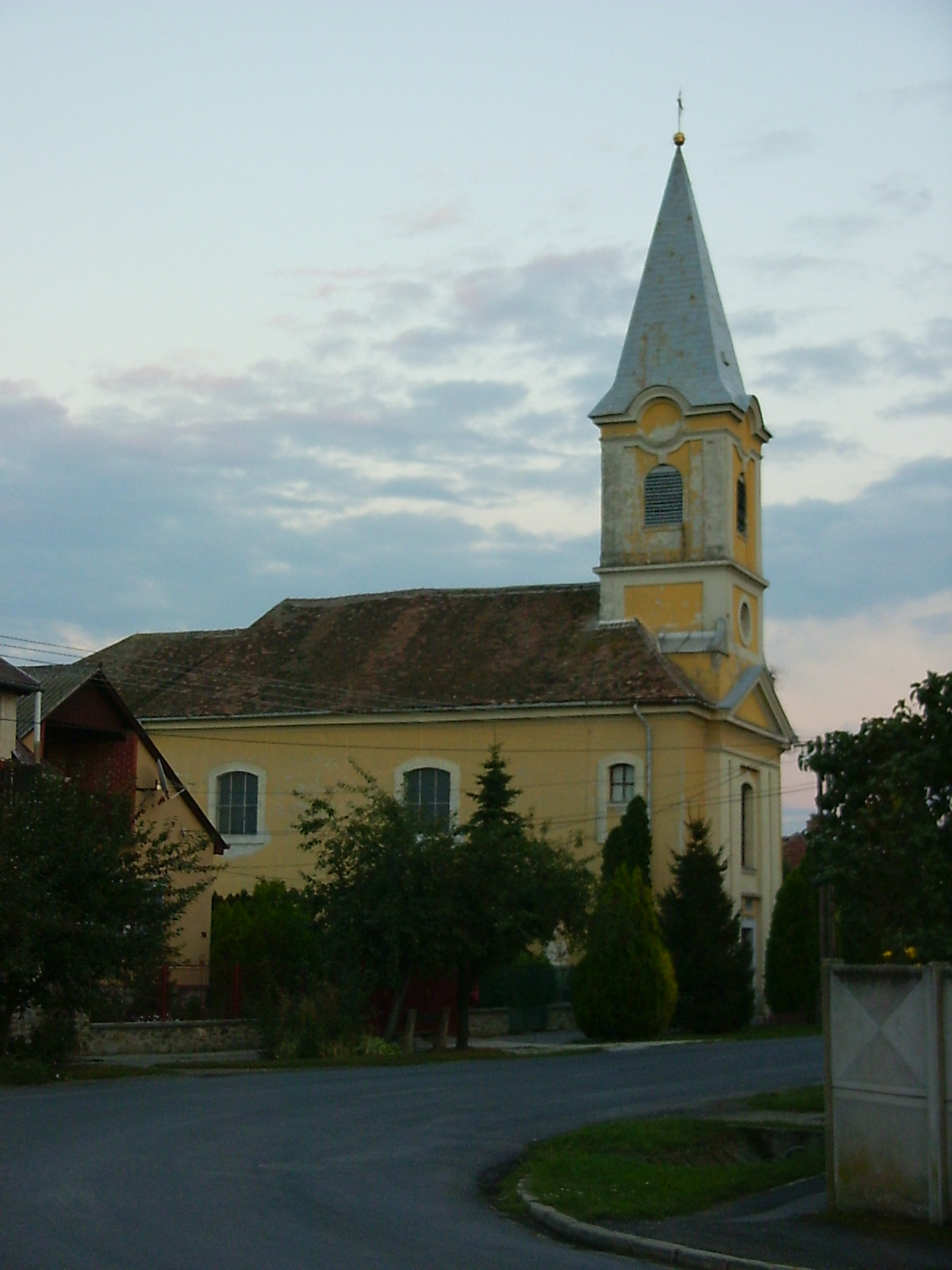 Saint Nicholas church in Pereszteg This is a photo of a monument in Hungary, Identifier: 4650